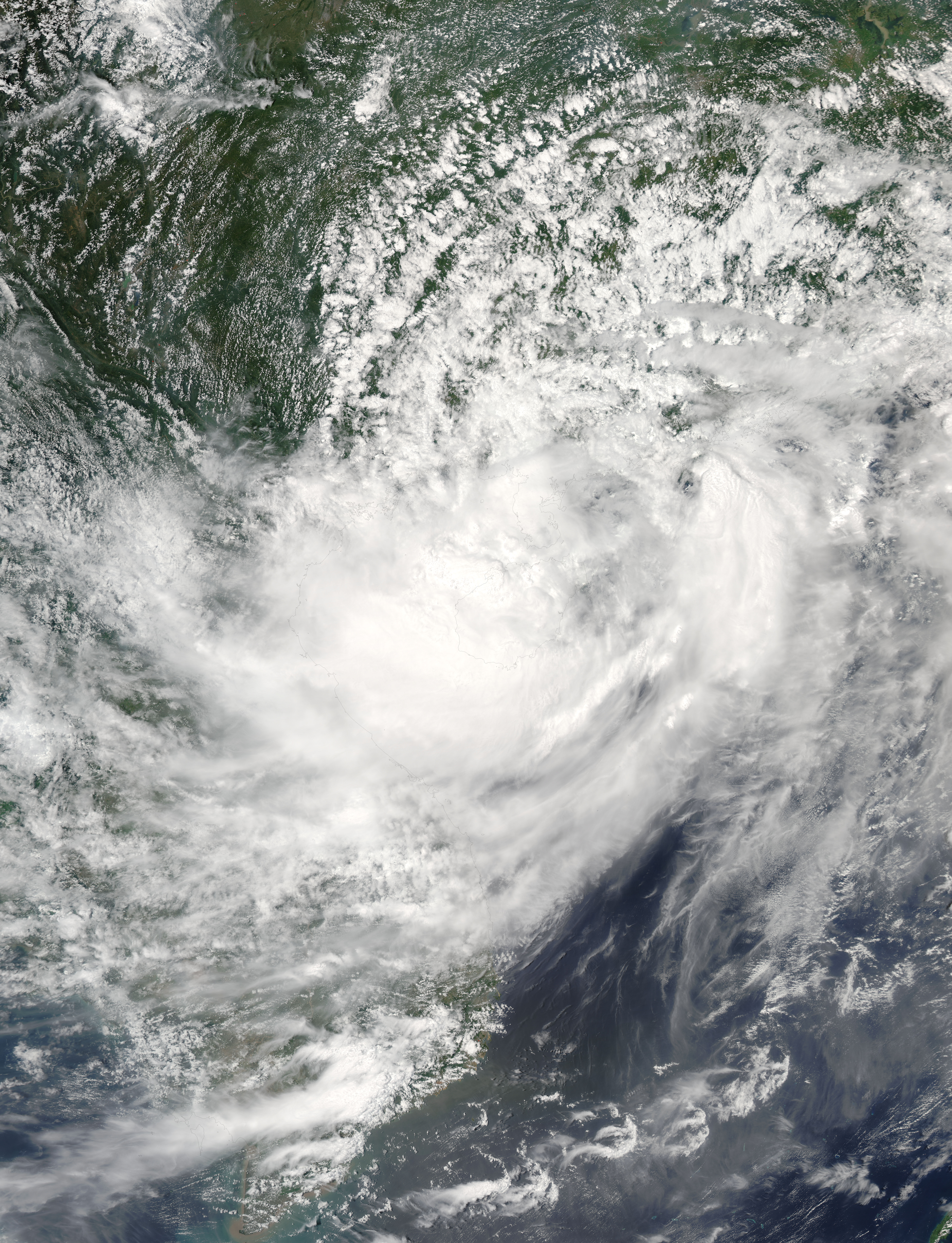 Tropical Depression Dianmu (11W) over southern China